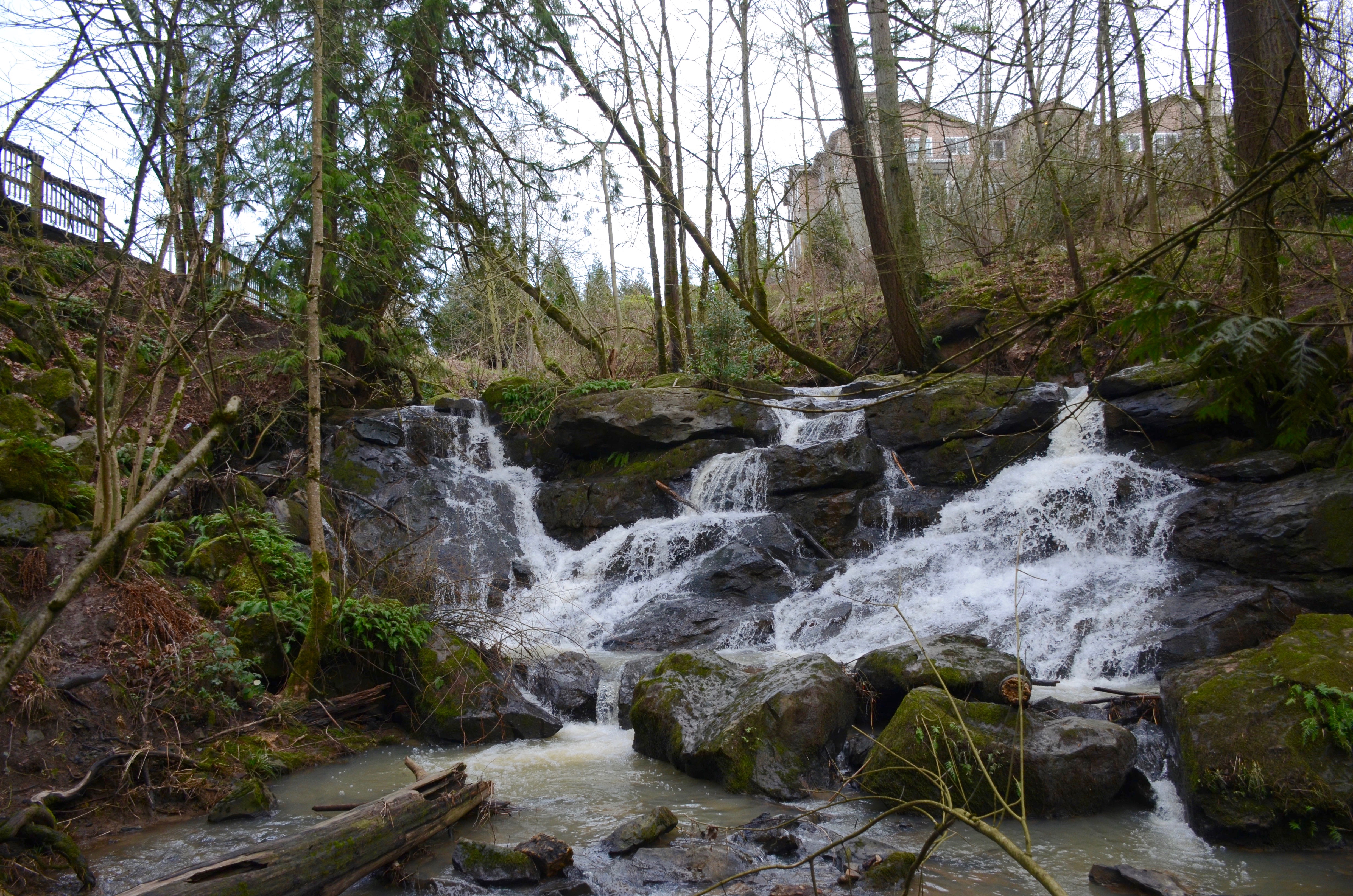 Cedar Mill Falls, in Cedar Mill, Oregon. Visible at upper left is the wooden railing of a walkway along the south side of Cornell Road.